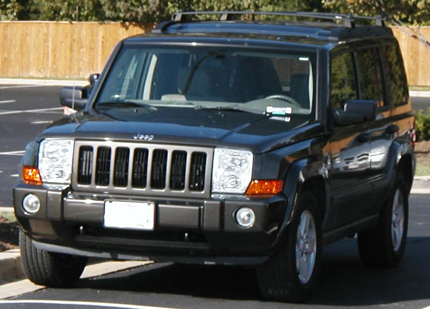 2006 Jeep Commander photographed in USA.